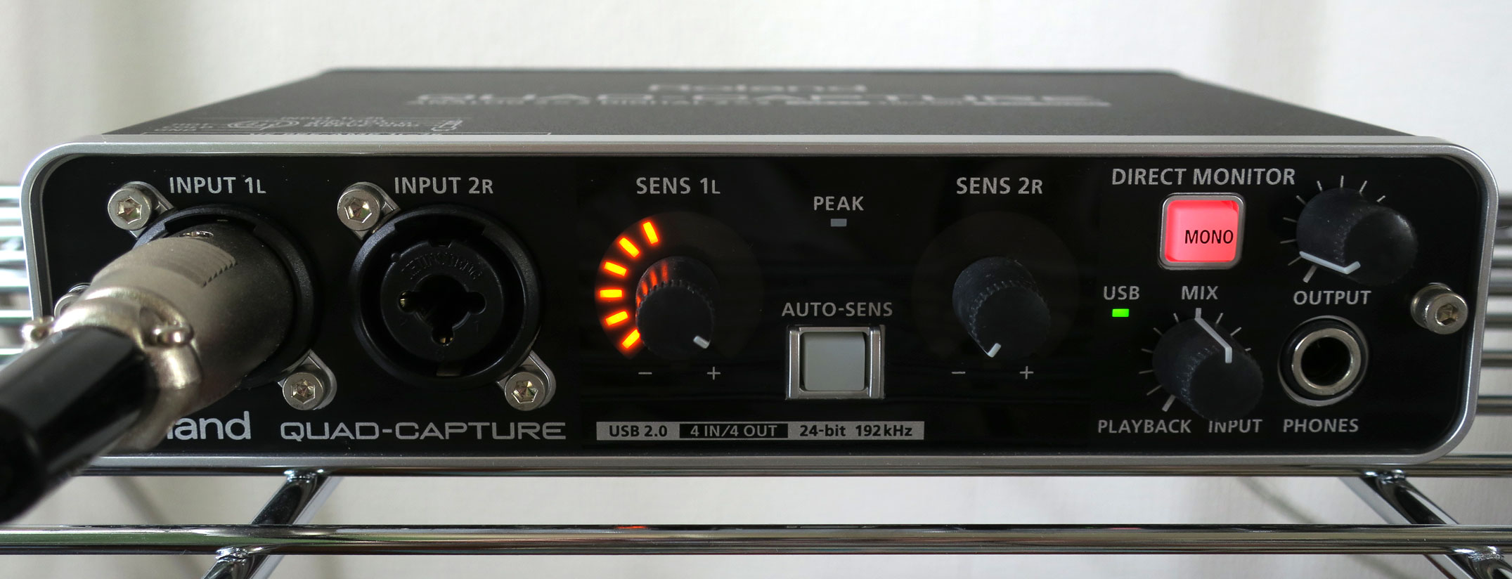 Roland QUAD-CAPTURE UA-55, USB 2.0 audio/MIDI interface unit.